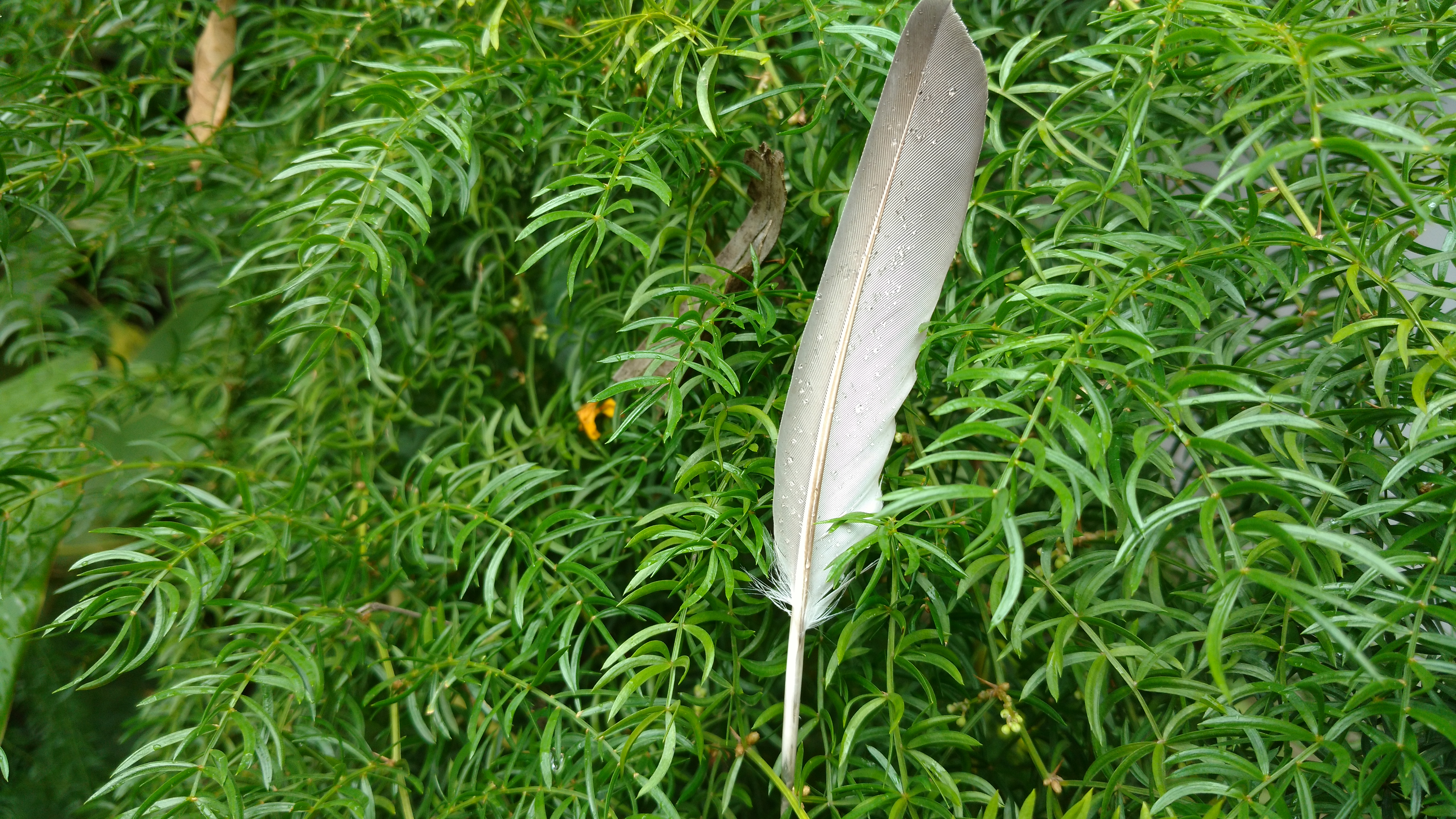 A Feather in my garden. Oleve Photography By Stalin